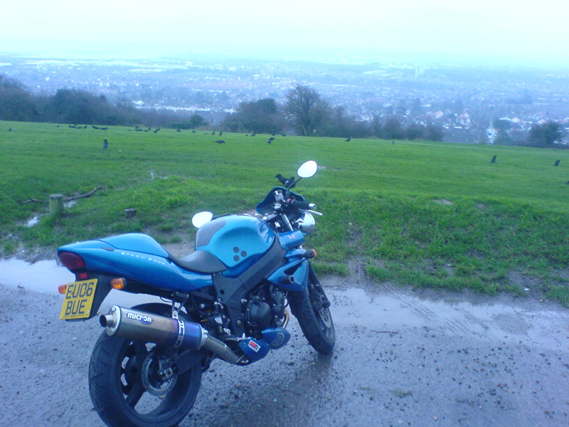 Triumph Speed Four. Chris Brown